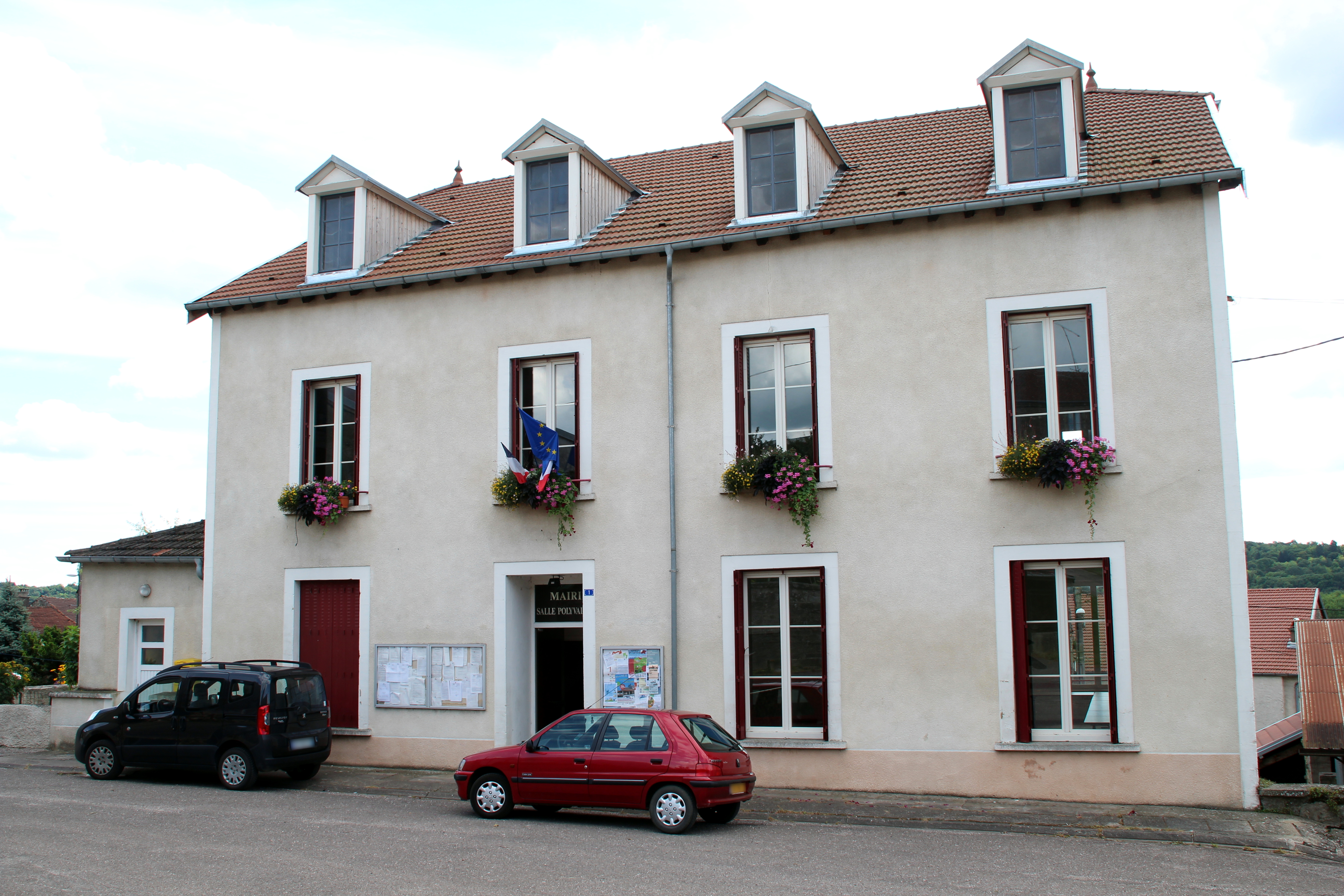 View of Fresnes-sur-Apance, France.